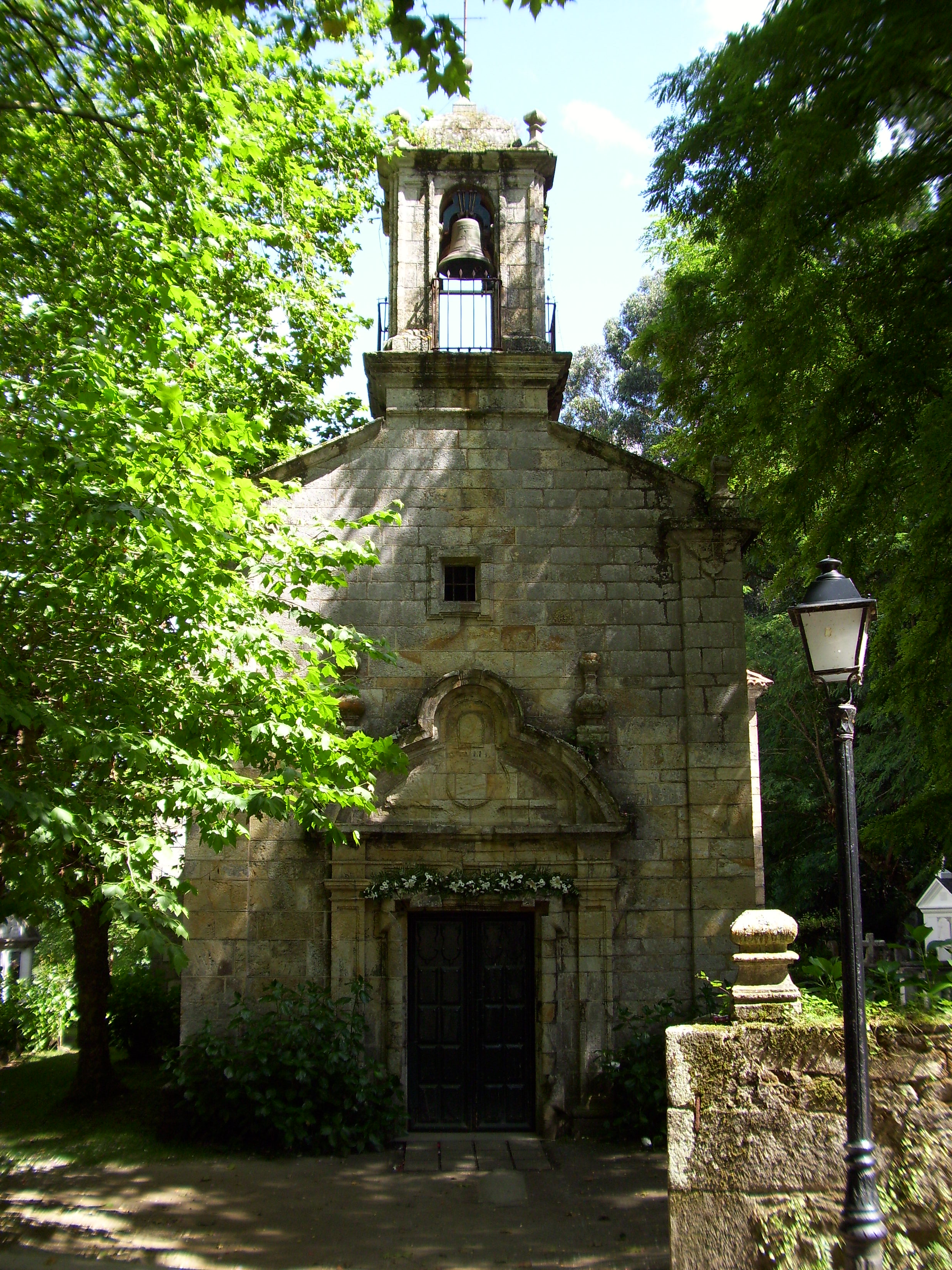 Santaia de Liáns church.